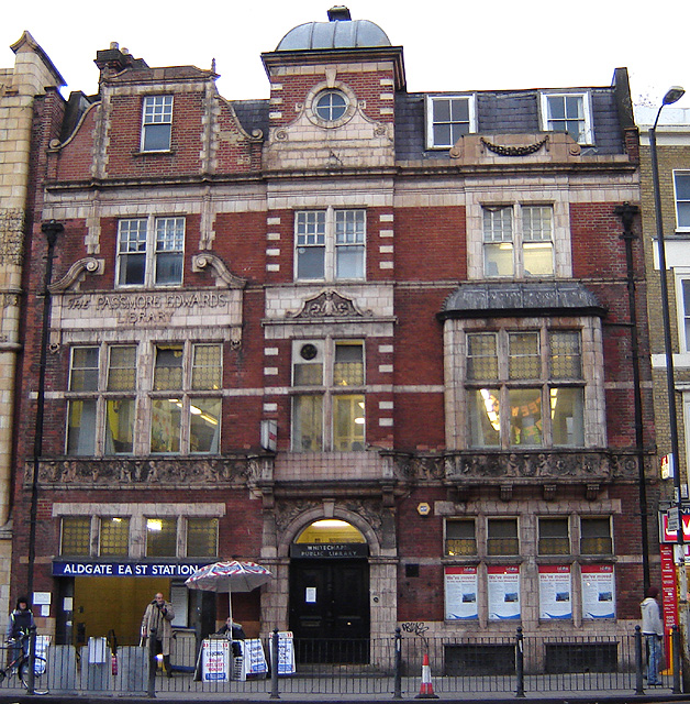 Whitechapel Public Library, Whitechapel High Street, Tower Hamlets, London (closed for refurbishment). 28 November 2005. Photographer: Fin Fahey.